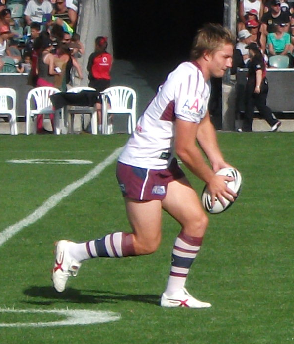 Kieran Foran warming up before the Manly v NZ Warriors match at North Harbour Stadium on 26 February 2011.